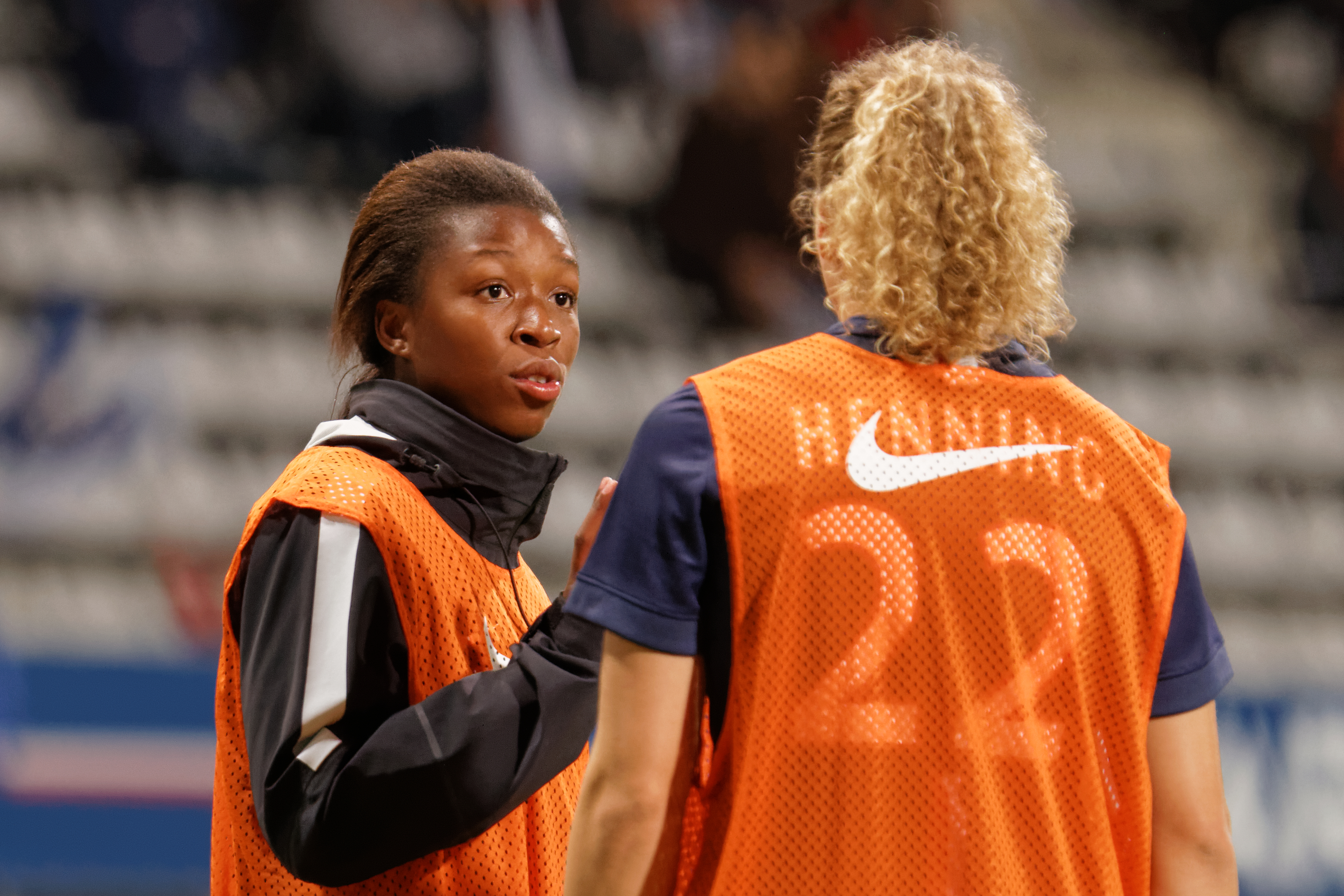 UEFA Women's Champions League, PSG - Twente, 15 October 2014. Onema Geyoro (PSG) and Josephine Heening (PSG) during the warm up.